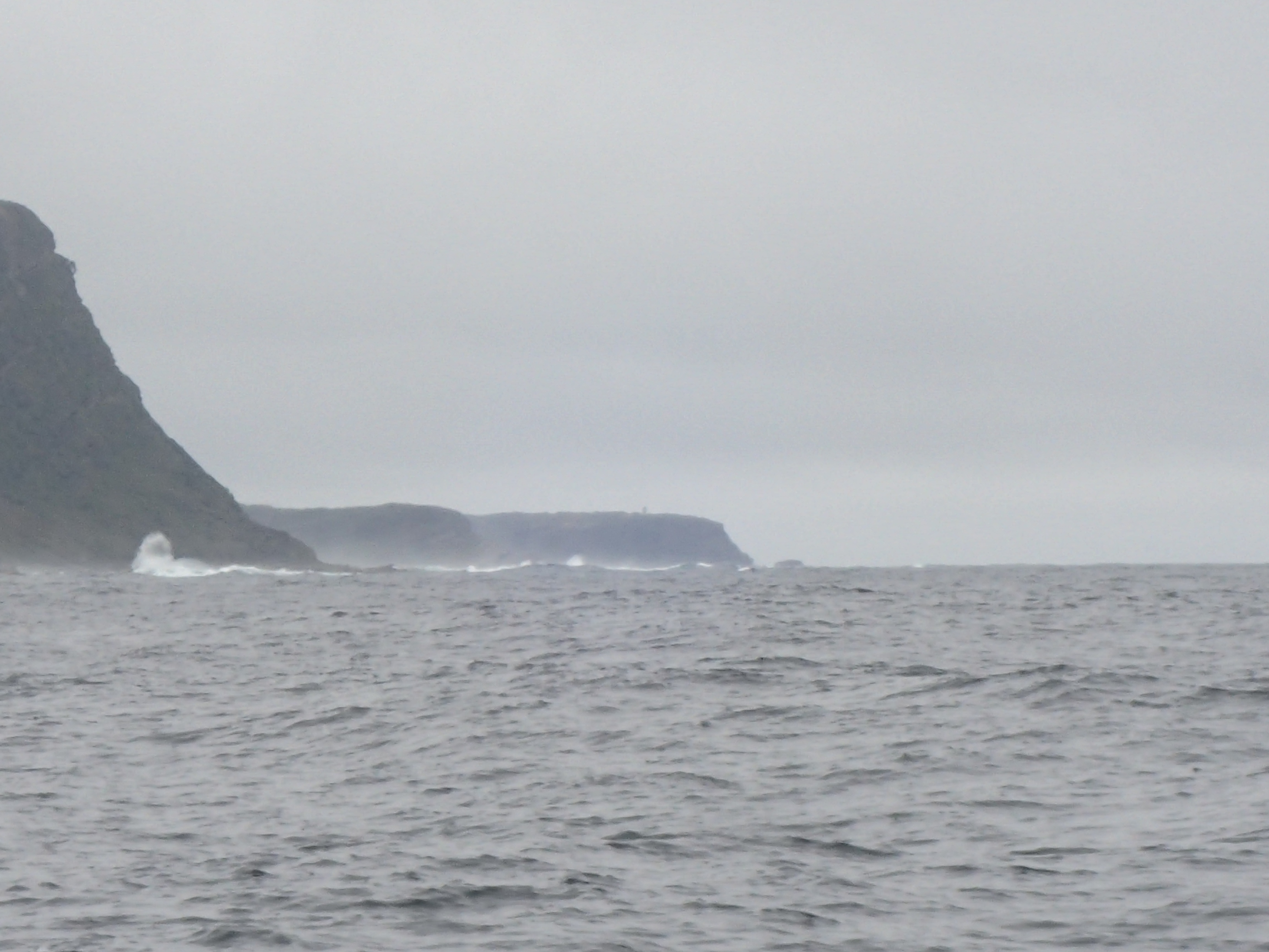 Puysegar Point & Lighthouse - from the North